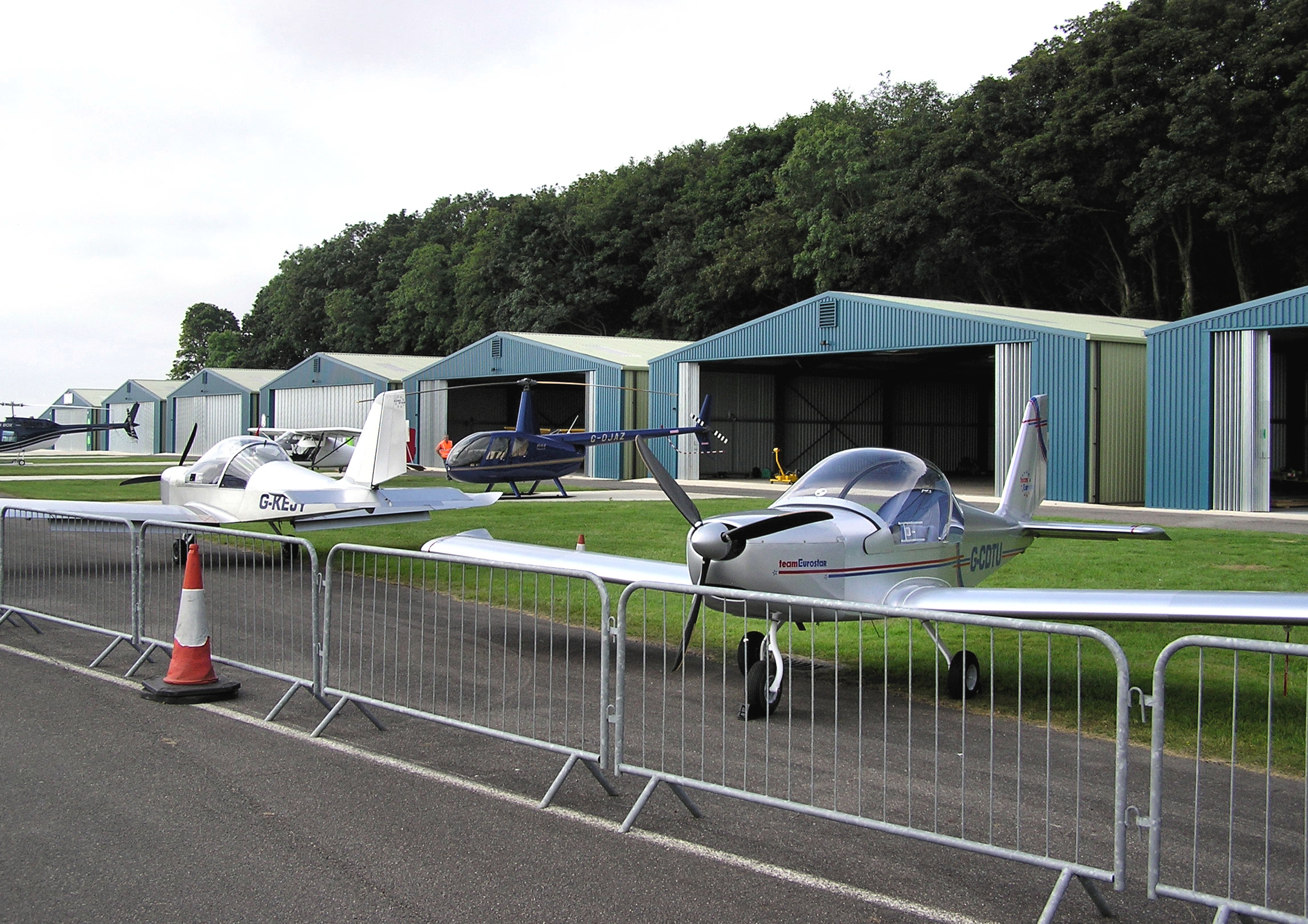 Hangars for light aircraft and helicopters at Kemble Airport, Gloucestershire, England.